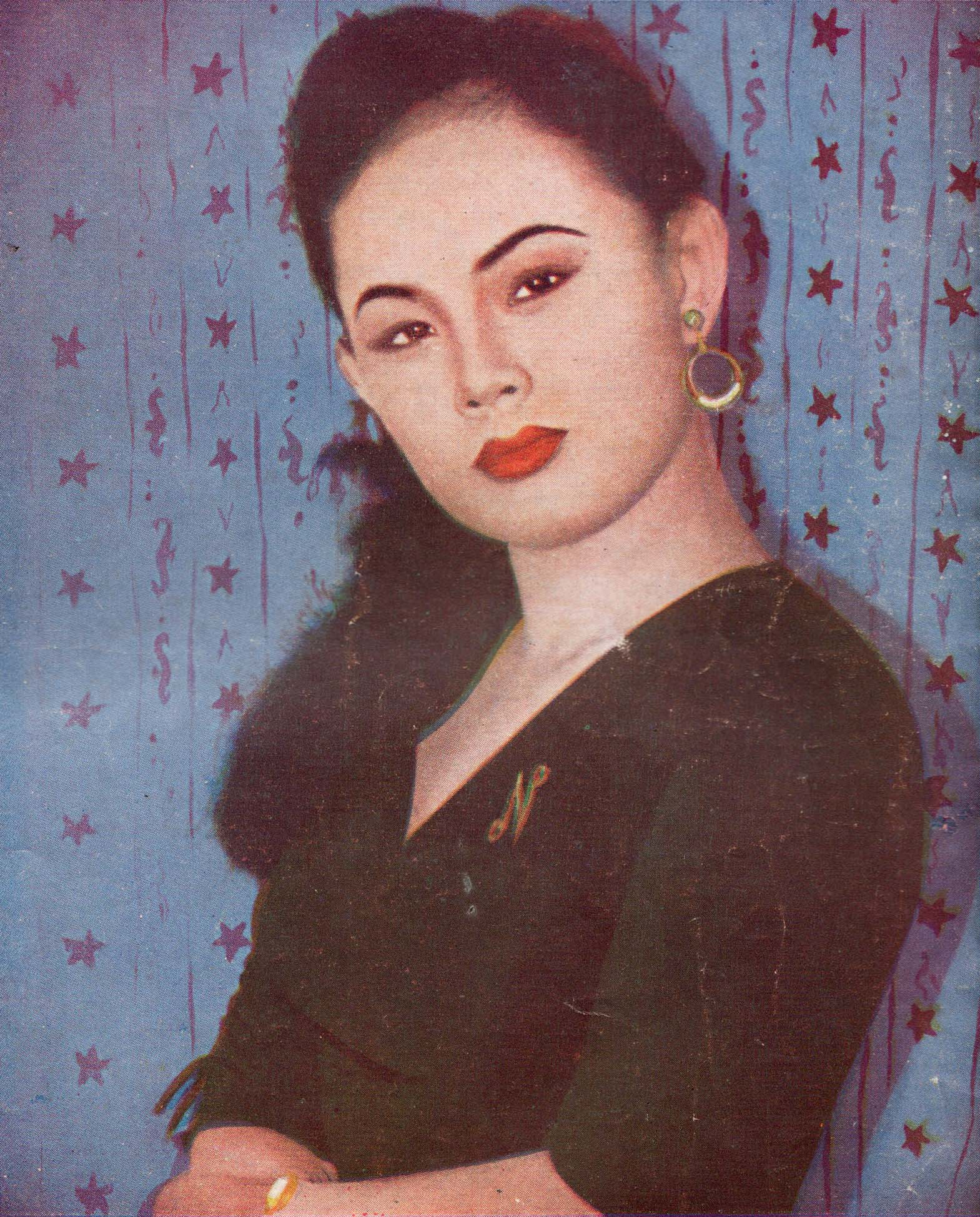 Indonesian film actress Netty Herawaty